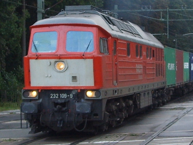 Railion diesel unit 232.109 pulling a freight train, passing Driebergen-Zeist railway station (near Utrecht, The Netherlands) in the morning.